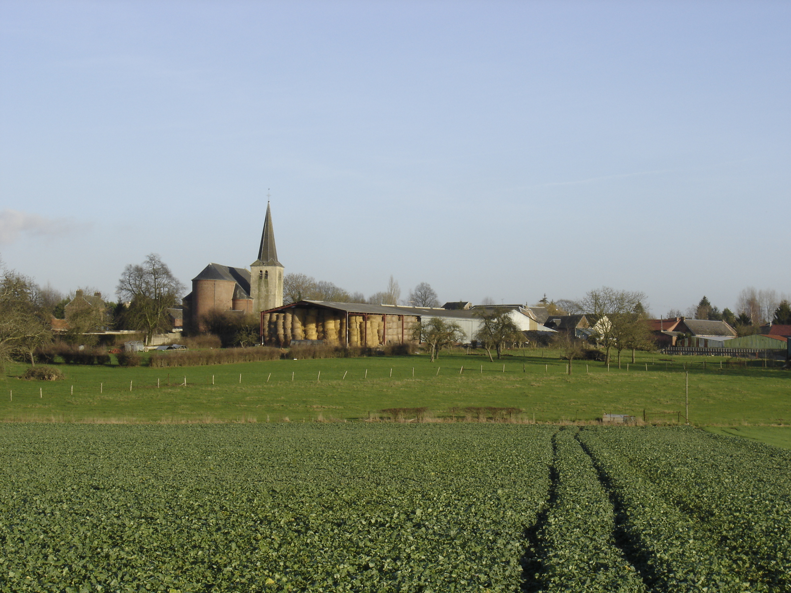 Reumont Overall view of the village with Saint-Pierre church